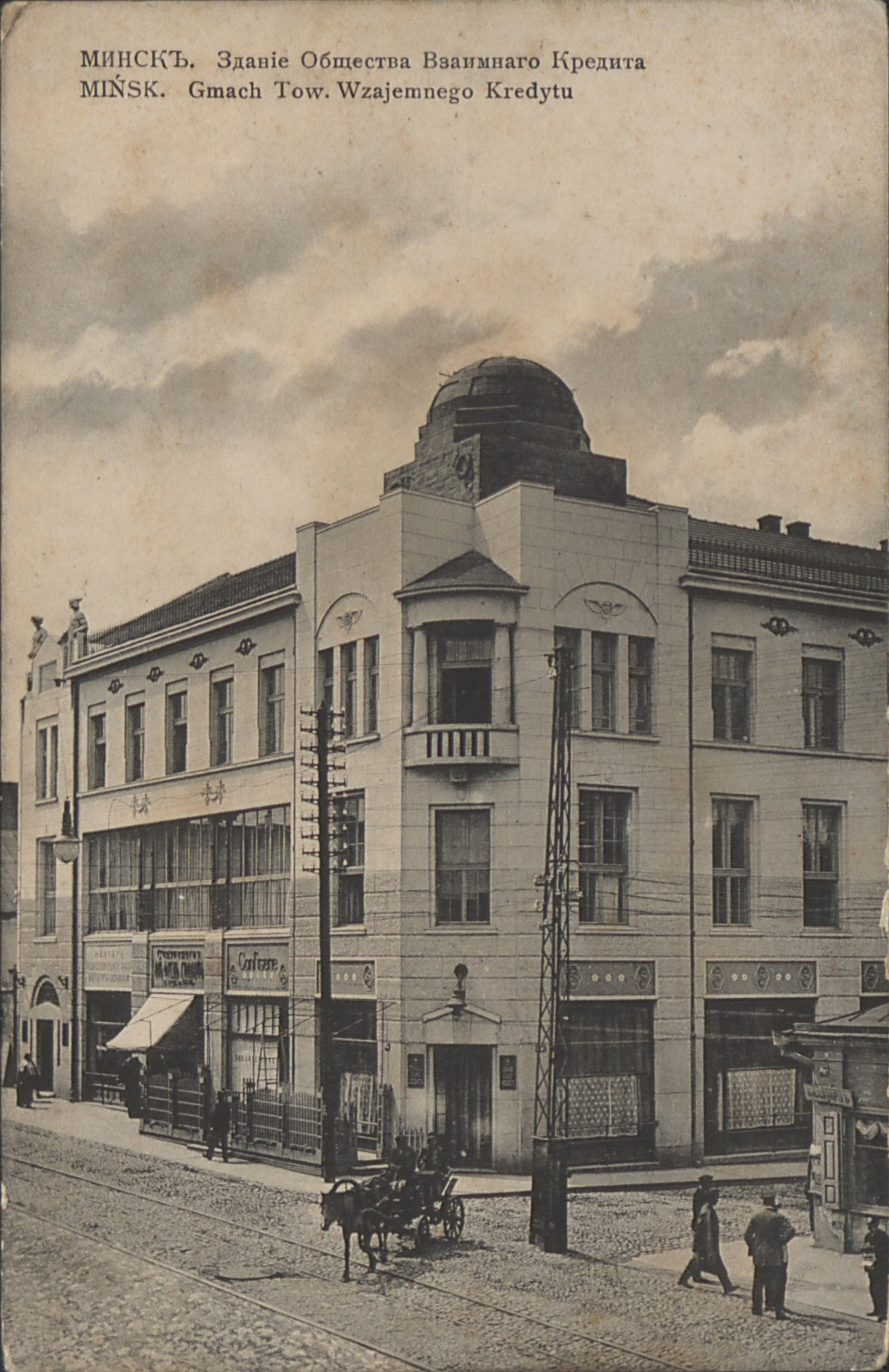 Polski Bank in Miensk